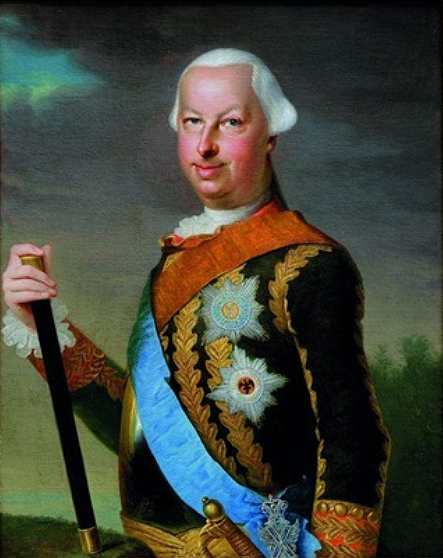 Portrait de Louis IX de Hesse oil on canvasmedium QS:P186,Q296955;P186,Q12321255,P518,Q861259 Height: 81 cm (31.8″); Width: 65 cm (25.5″) dimensions QS:P2048,81U174728;P2049,65U174728 Auction: 6 December 2013